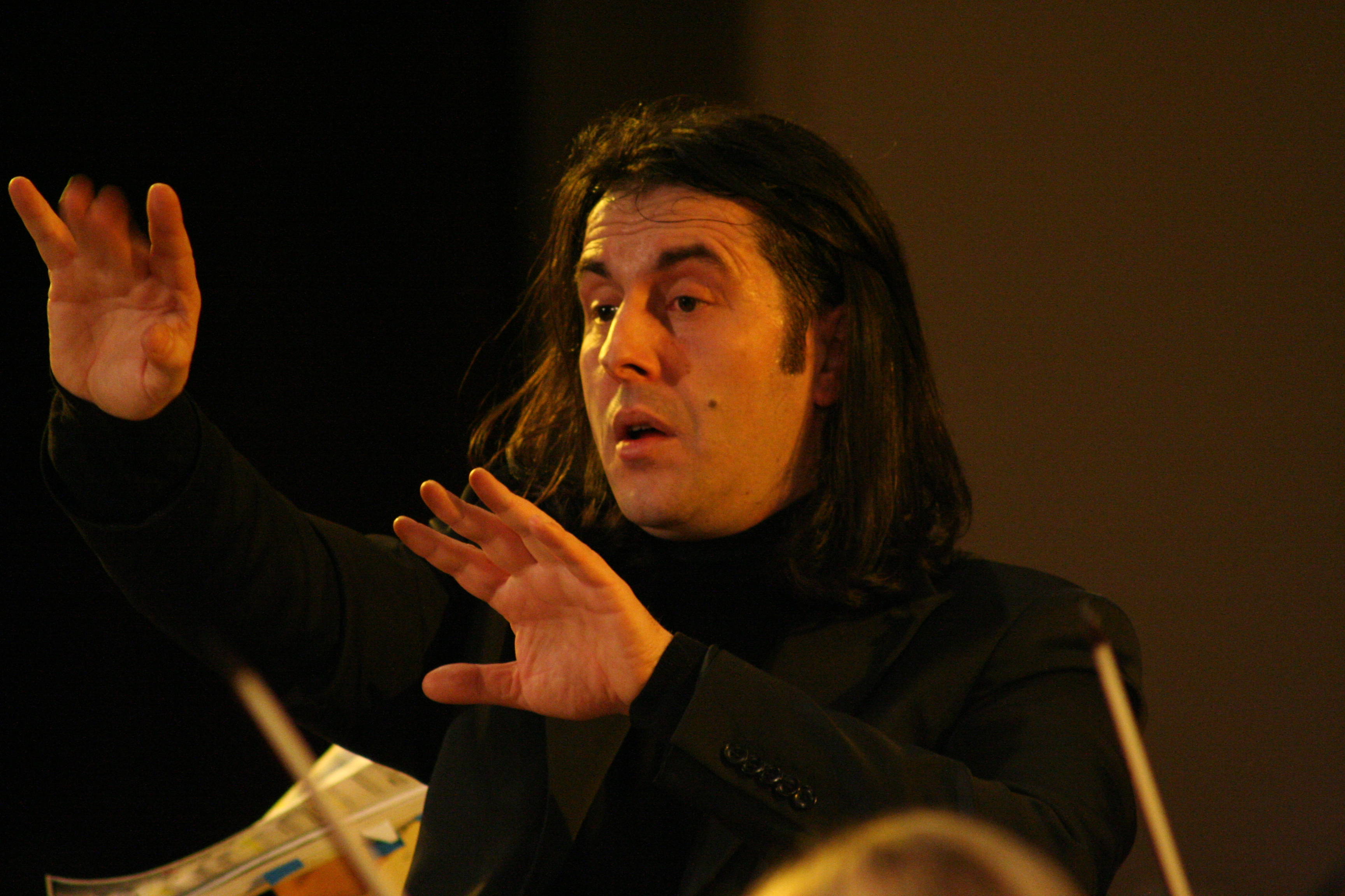 Duomo S. Matteo - Asiago VI